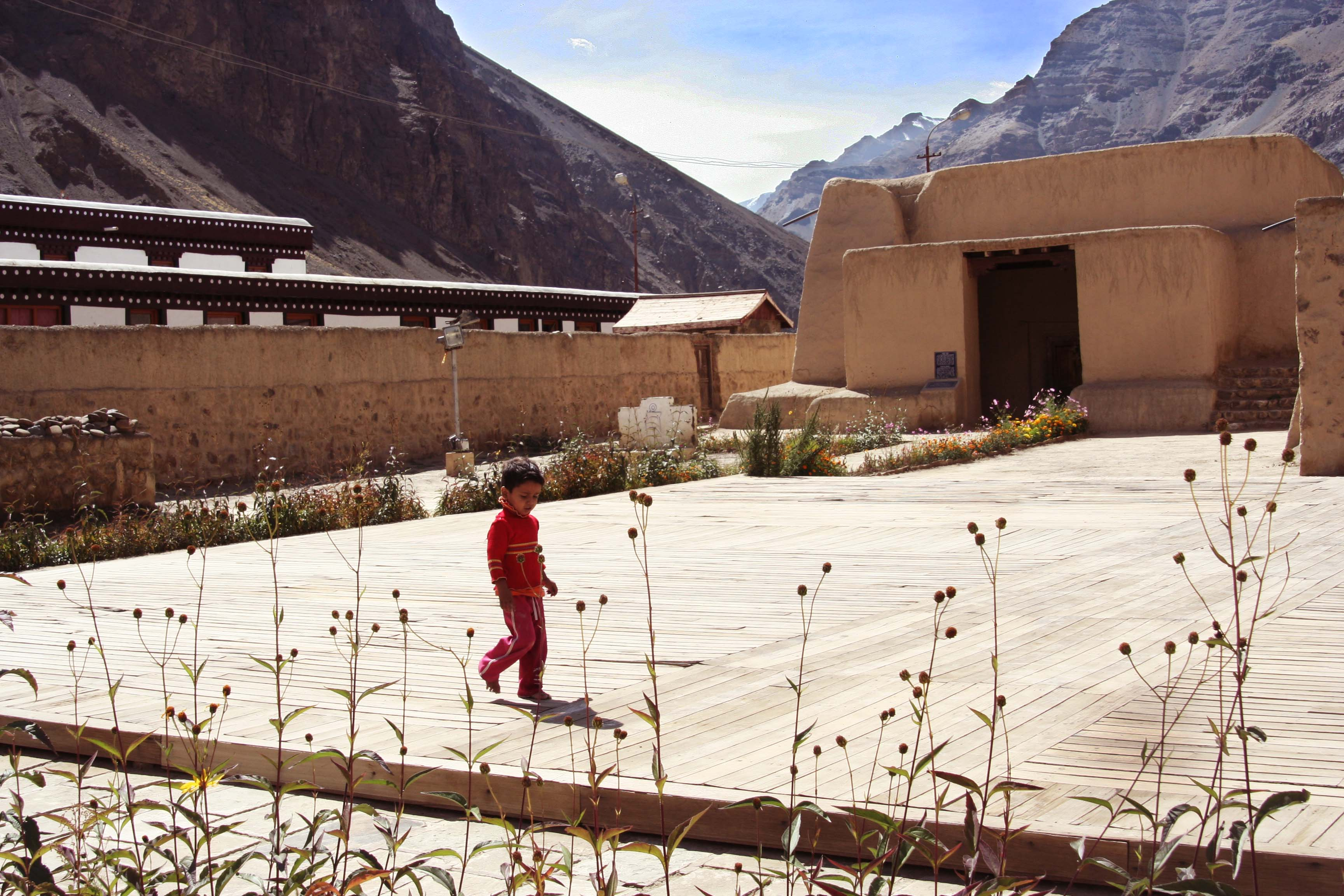 1000 years old Tabo Monastery belonging to Buddhist religion in Spiti Valley,Himachal Pardesh,India.